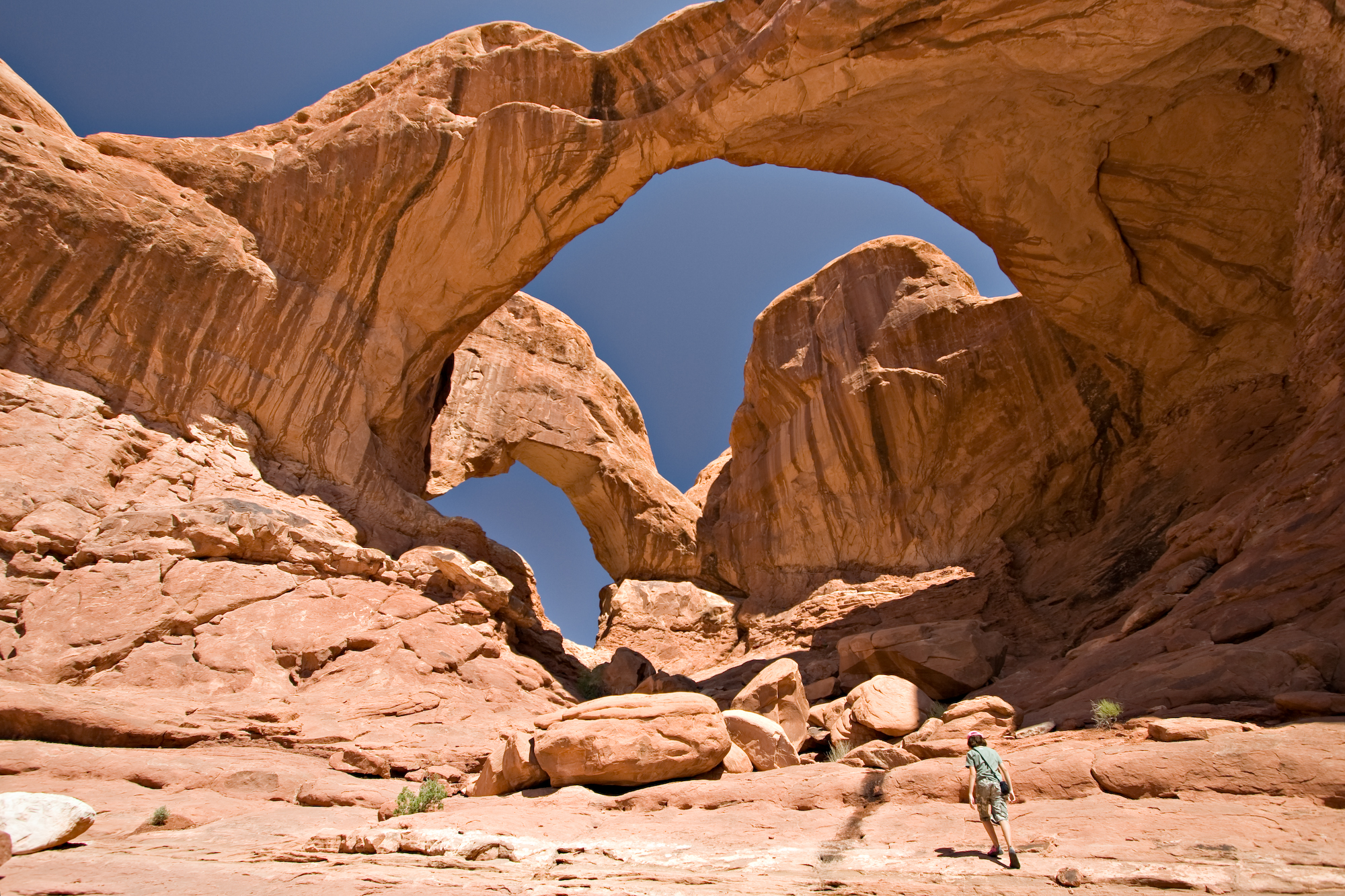 Double Arch, a close-set pair of arches located in Arches National Park in Utah, USA.